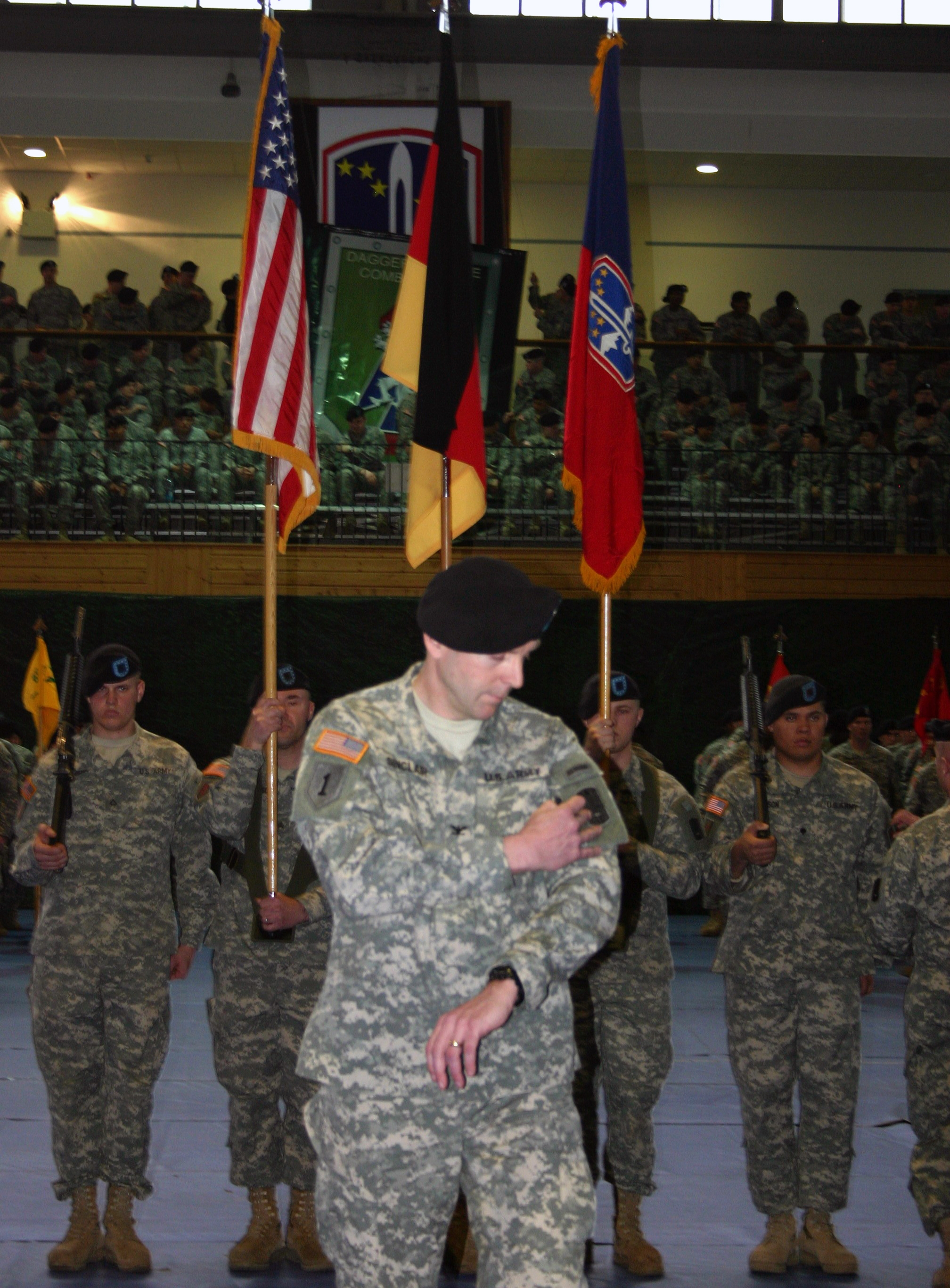 Col. Jeffrey Sinclair exchanges his 1st Infantry Division 'Big Red One' patch for the shoulder sleeve insignia of the 172nd Infantry Brigade (Separate) as Soldiers change the unit banners in the background, during the ceremony activating the 'Blackhawk' Brigade in Schweinfurt, Germany March 17.